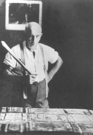 Potrait of Adolf Wolfi, taken 1925.